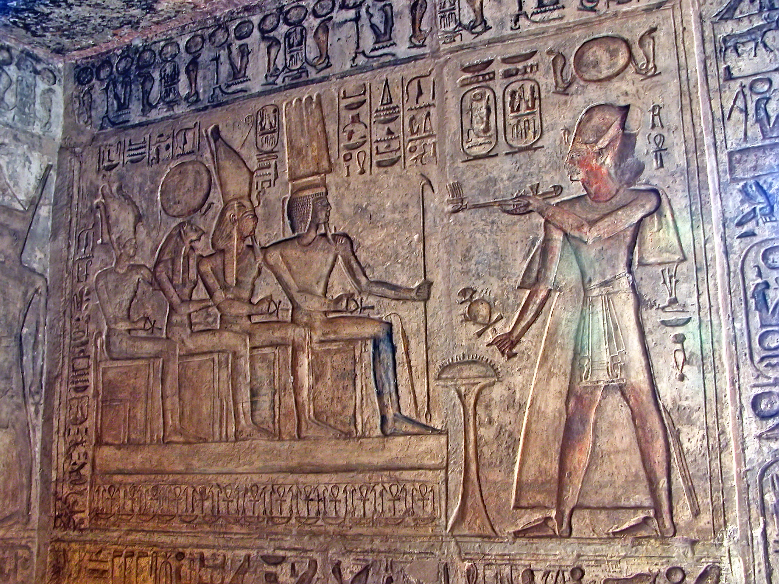 A relief depicting Ramesses II making an offering to the gods of Egypt from the Temple of Wadi es-Sebua in Nubia.